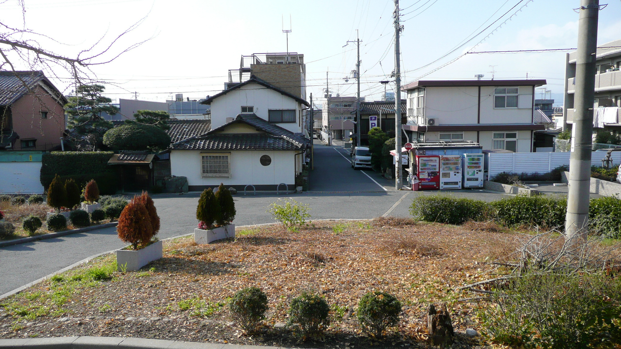 West Japan Railway, Nara Line, Shinden Station square.